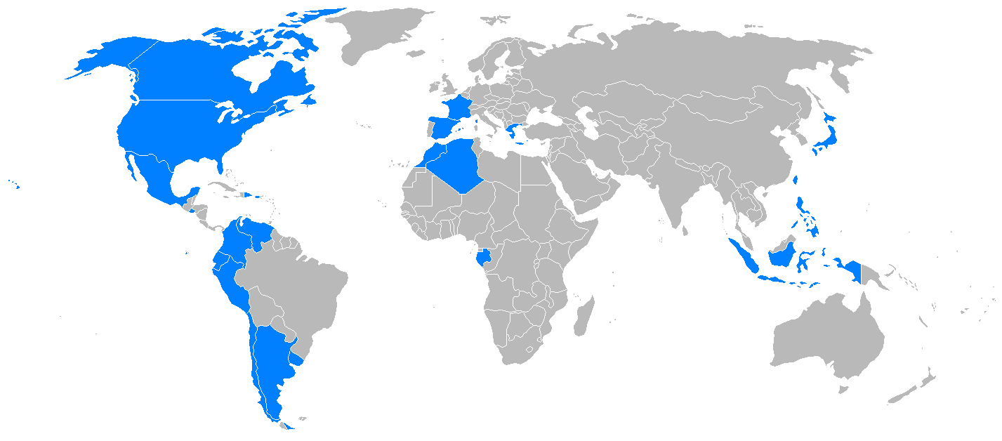 World map of military operators of the T-34 Mentor